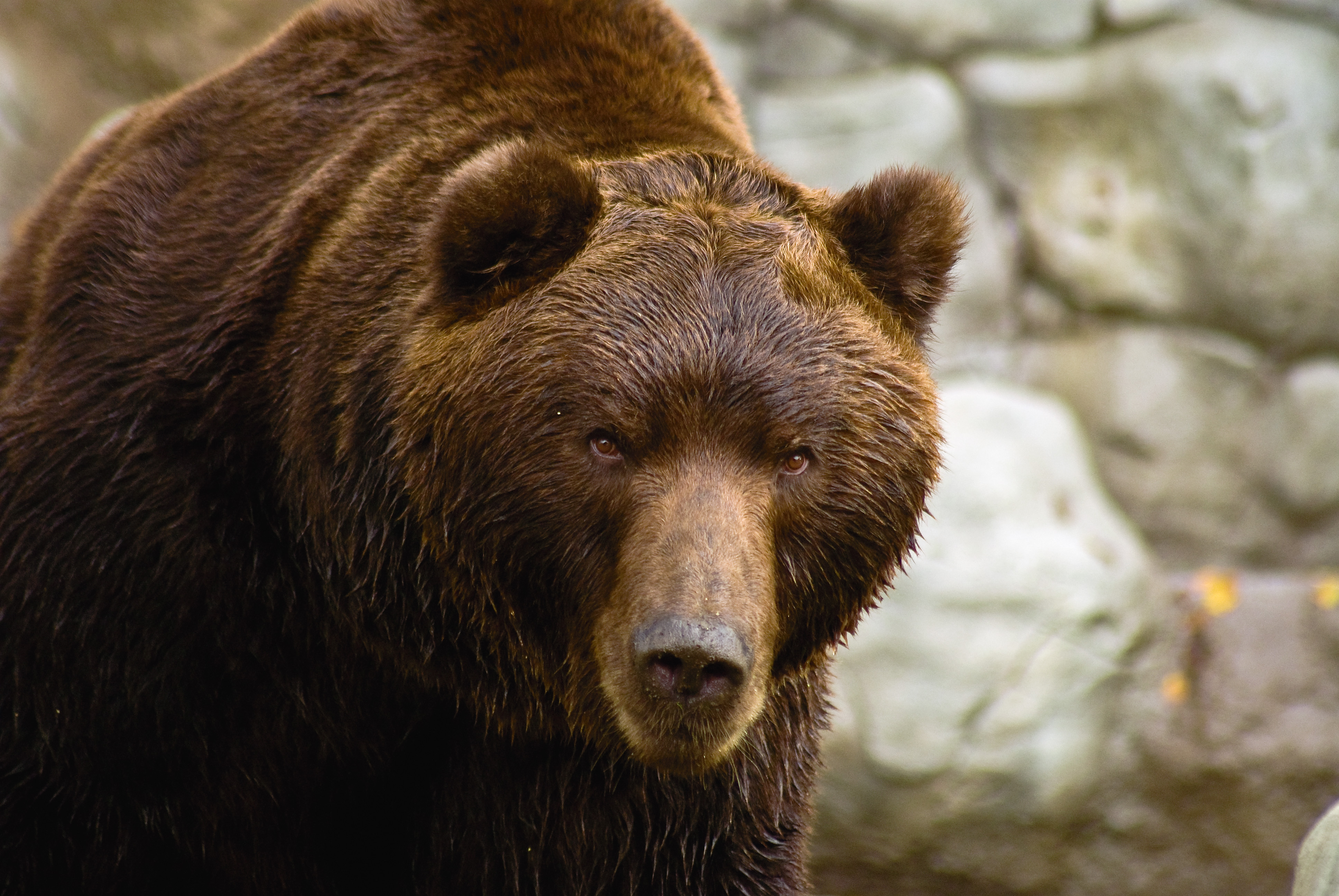 Kamchatka brown bear in Zoo Brno(Czech republic).